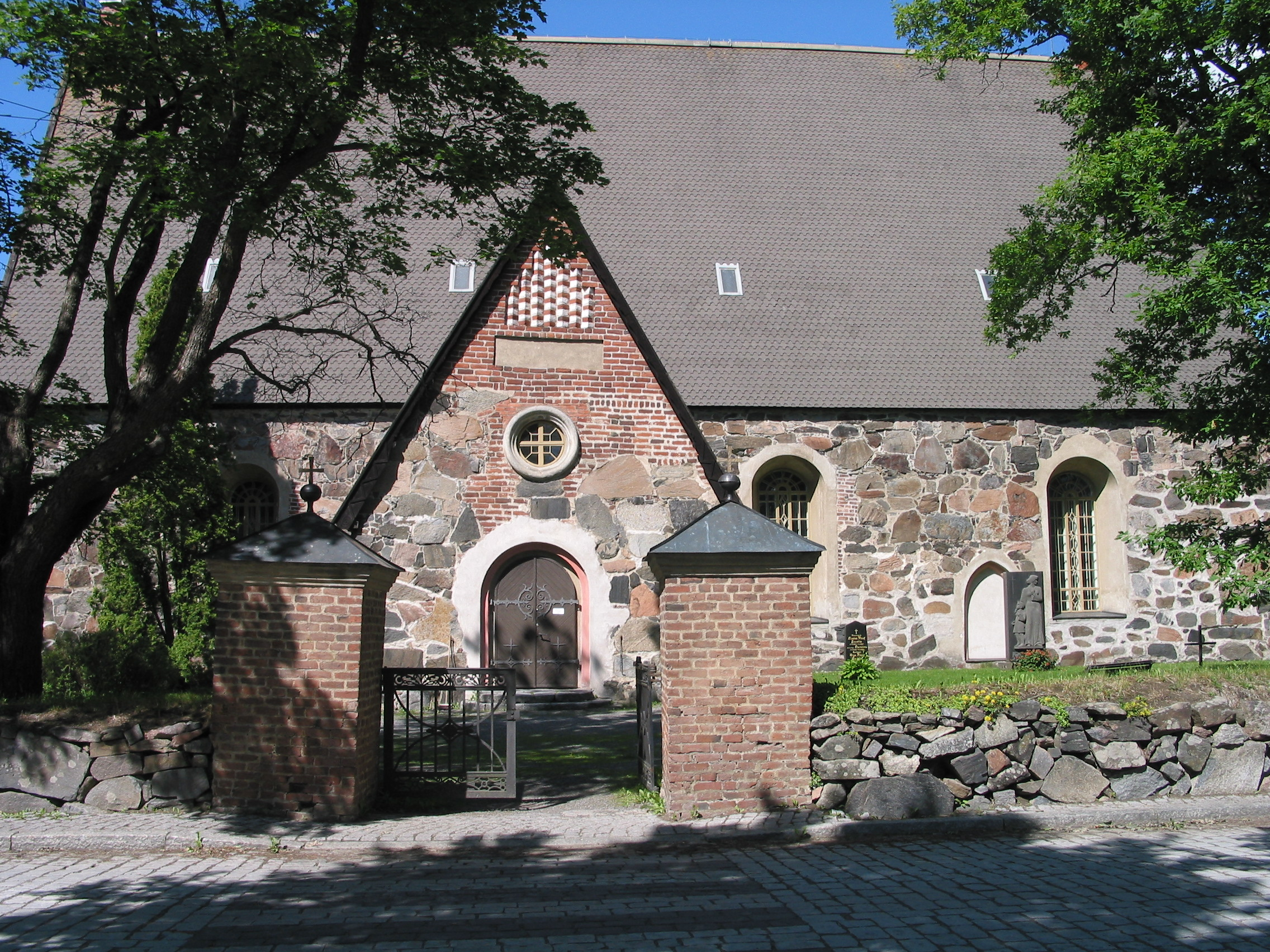 Lammi medieval Church, Lammi, Hämeenlinna Finland